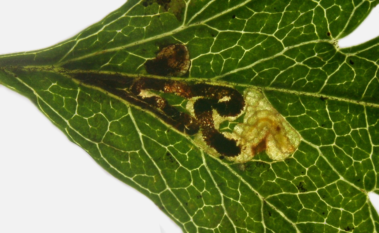 Stigmella perpygmaeella mine, Trawscoed, North Wales, Sept 2006